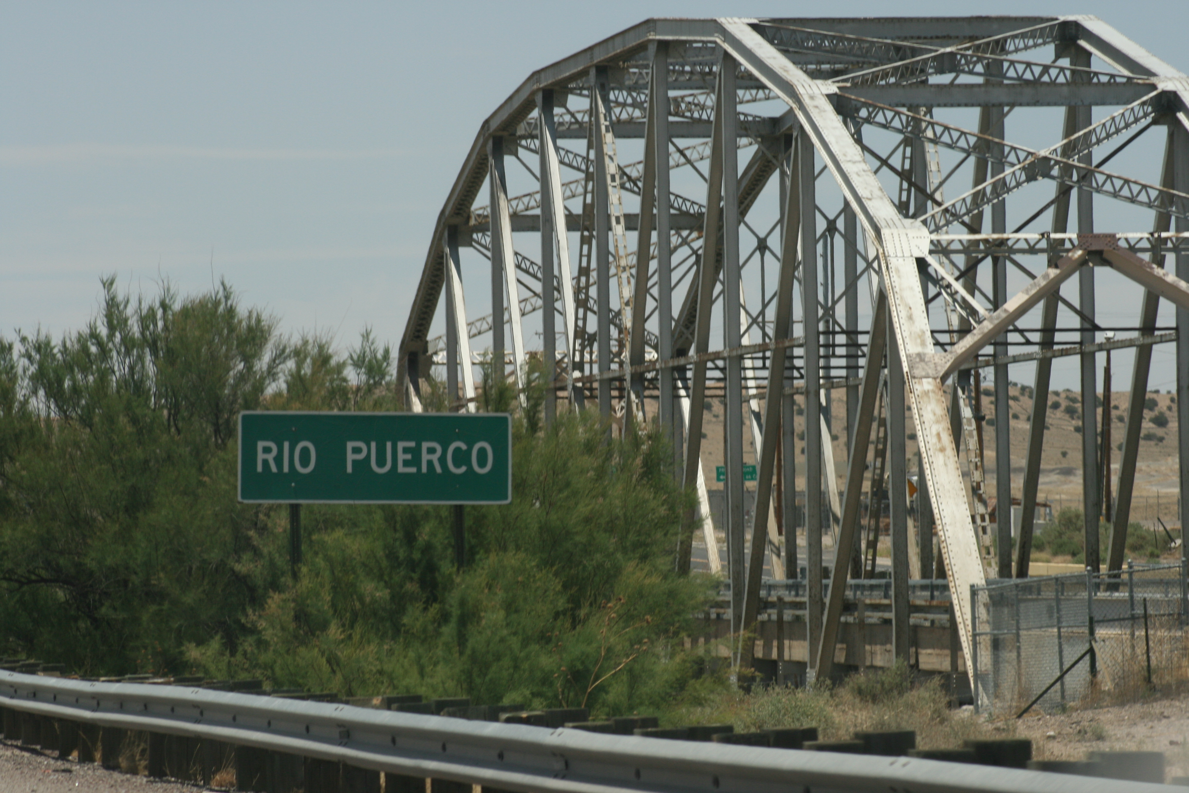 The abandoned Rio Puerco Bridge on Old Route 66 in Bernalillo County, New Mexico.